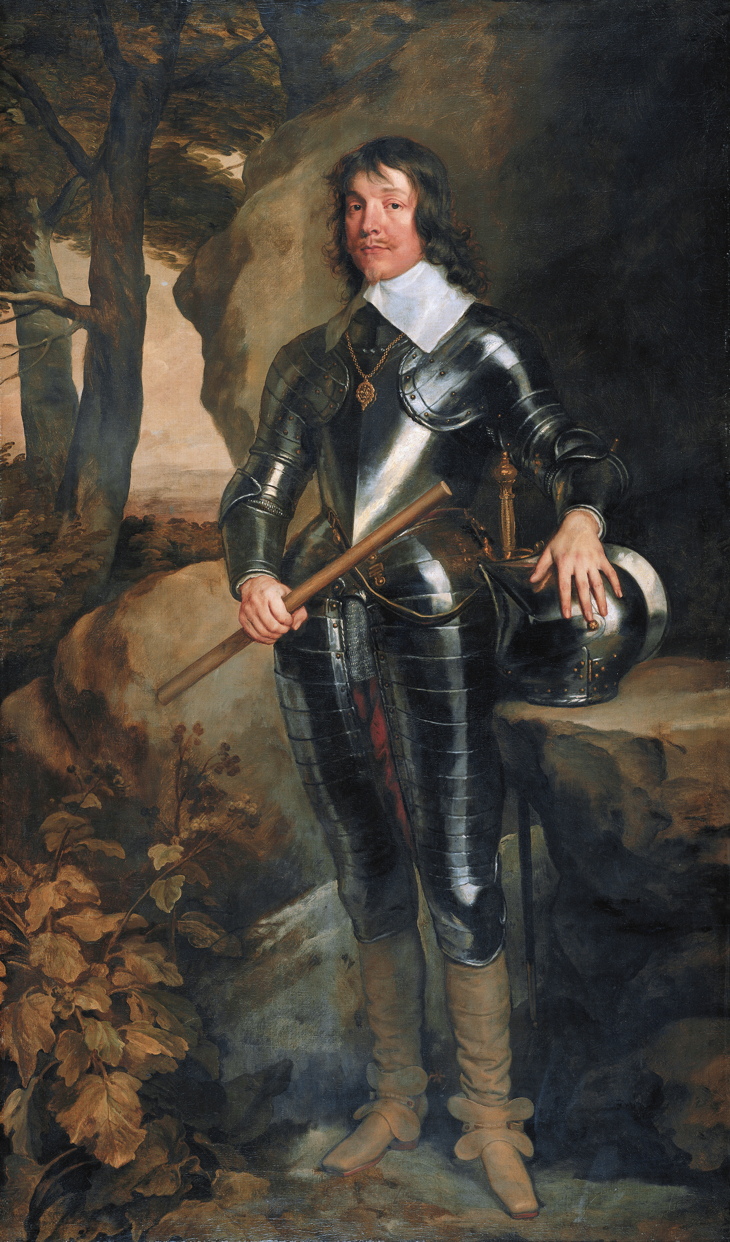 James Hamilton, third Marquess of Hamilton oil on canvas 219 x 129 cm 1640